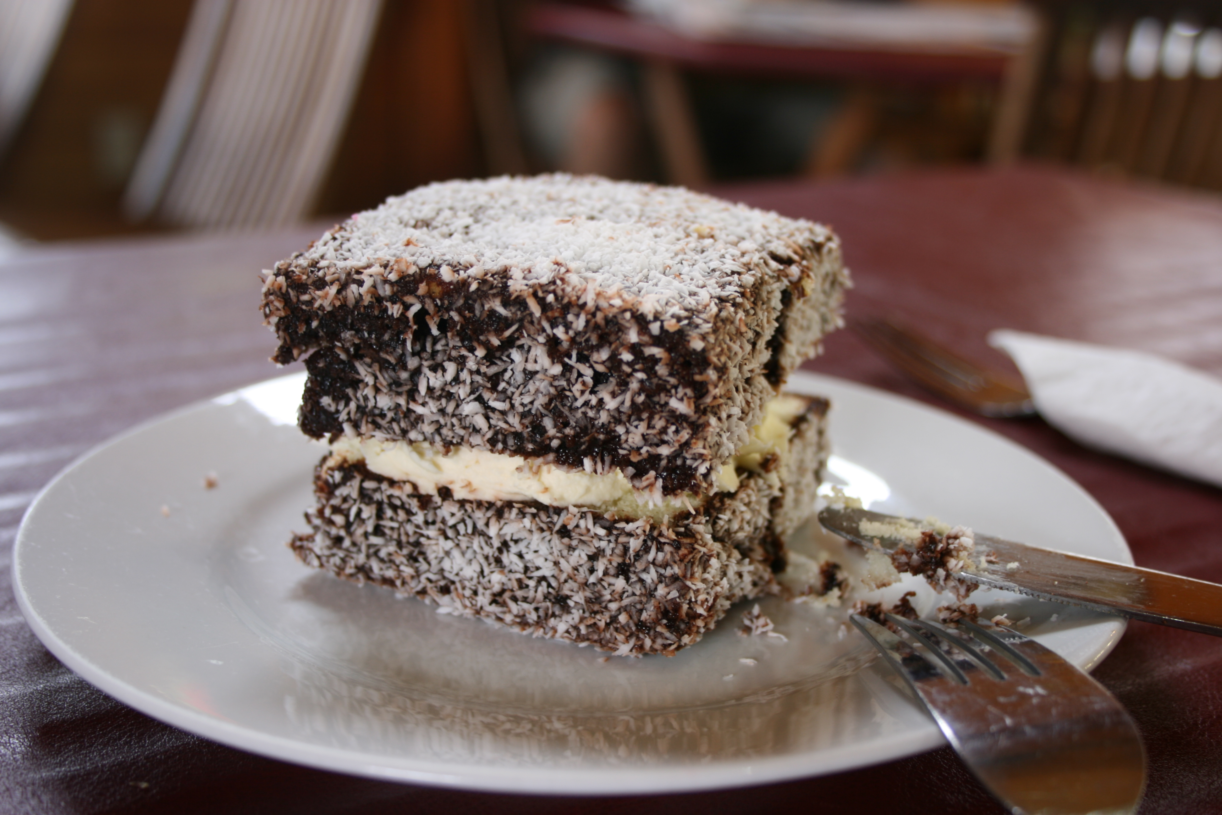 Photo taken by Monica Shaw